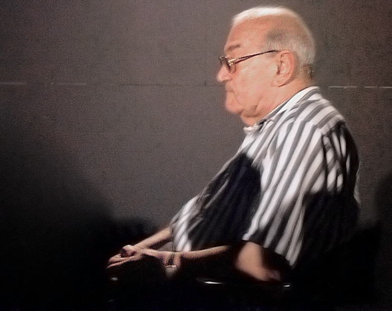 Korchnoi Korchnoi, the living legend, the main attraction of Mexico's 2006 Chess Festival (alongside with GM Alexandra Kosteniuk, GM Sergei Karjakin and GM Gilberto Hernandez) waiting for a match to start. It was a most wonderful Chess Festival in Mexico today. In the quadrangular tournament GM Viktor Kortchnoi tied for silver with GM Alexandra Kosterniuk behind the winner Sergei Karjakin. Apart from that the city of Mexico beat the Guinness World Record of maximum number of games played in simuls on one day (14,065), and Anatoly Karpov also beat the Guinness World Record with the maximum number of autographed books (1,951)